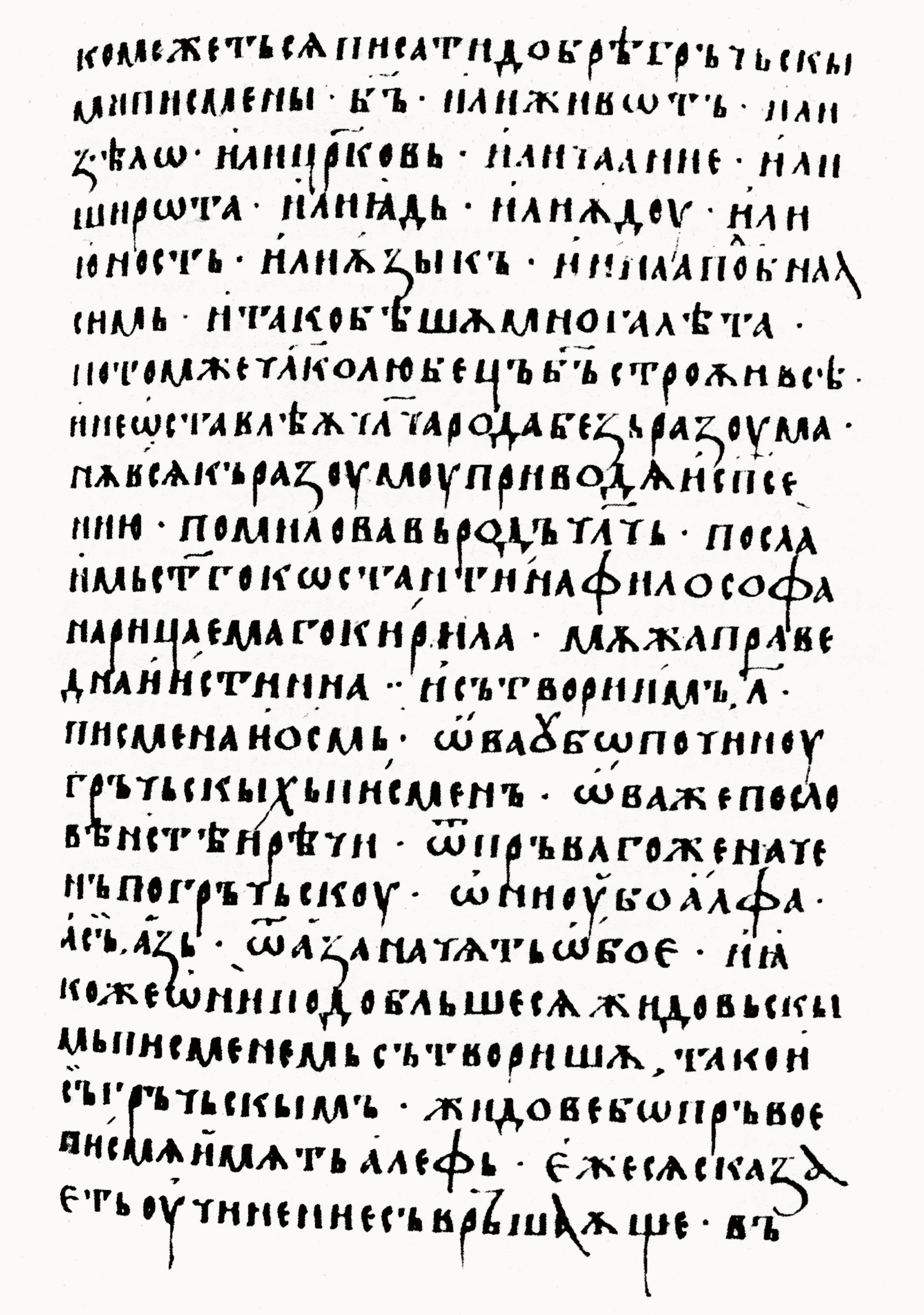 Chernorizets Hrabar, On the Letters, Manuscript from 1348 by the monk Laurentius, fol. 102a. Reproduction in K.M. Kuev: Černorizec Chrabar, Sofija 1967.